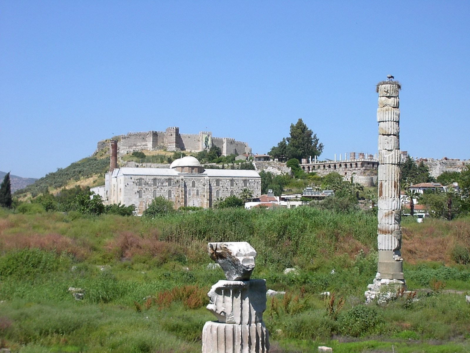 Temple of Artemis, Ephesus, Turkey